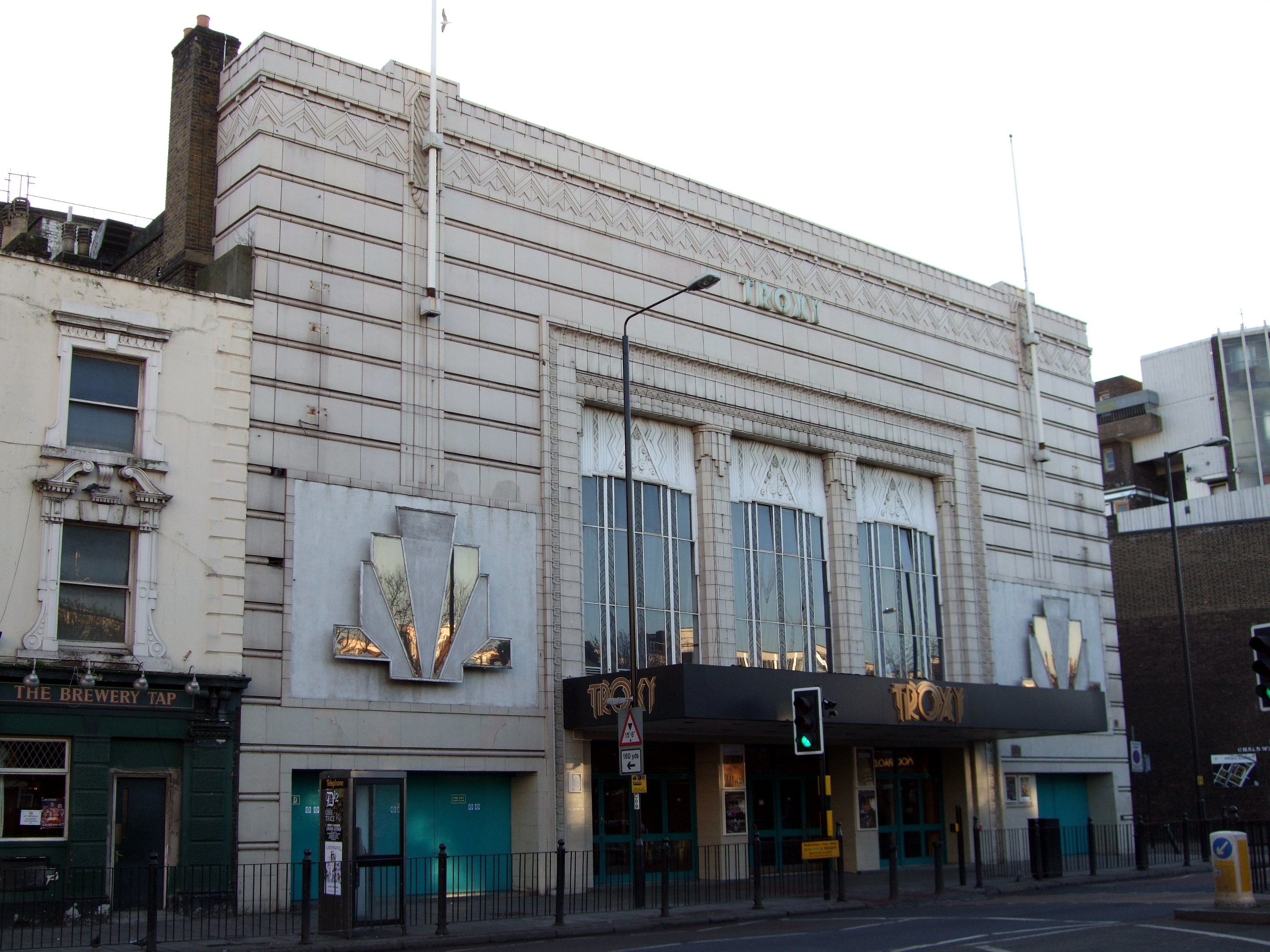 A large venue near the end of Commercial Rd, in glorious 30s art deco style. It was originally opened as a cinema in 1933, closing in 1960, and was latterly a bingo hall until 2006. (The presence of a pub next door called The Brewery Tap hints that there was once a brewery, the Commercial Brewery, on this site.) Address: 490 Commercial Road. Former Name(s): The Troxy Cinema. Owner: (website). Links: Cinema Treasures